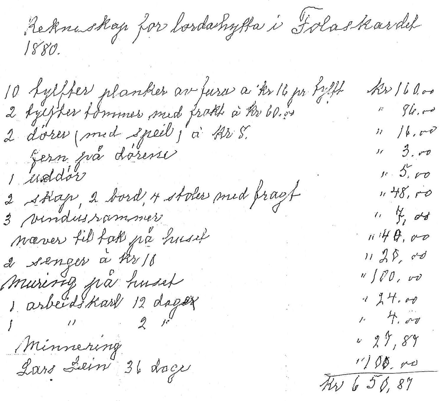 Bill for building the Lordehytta by Lars Lein